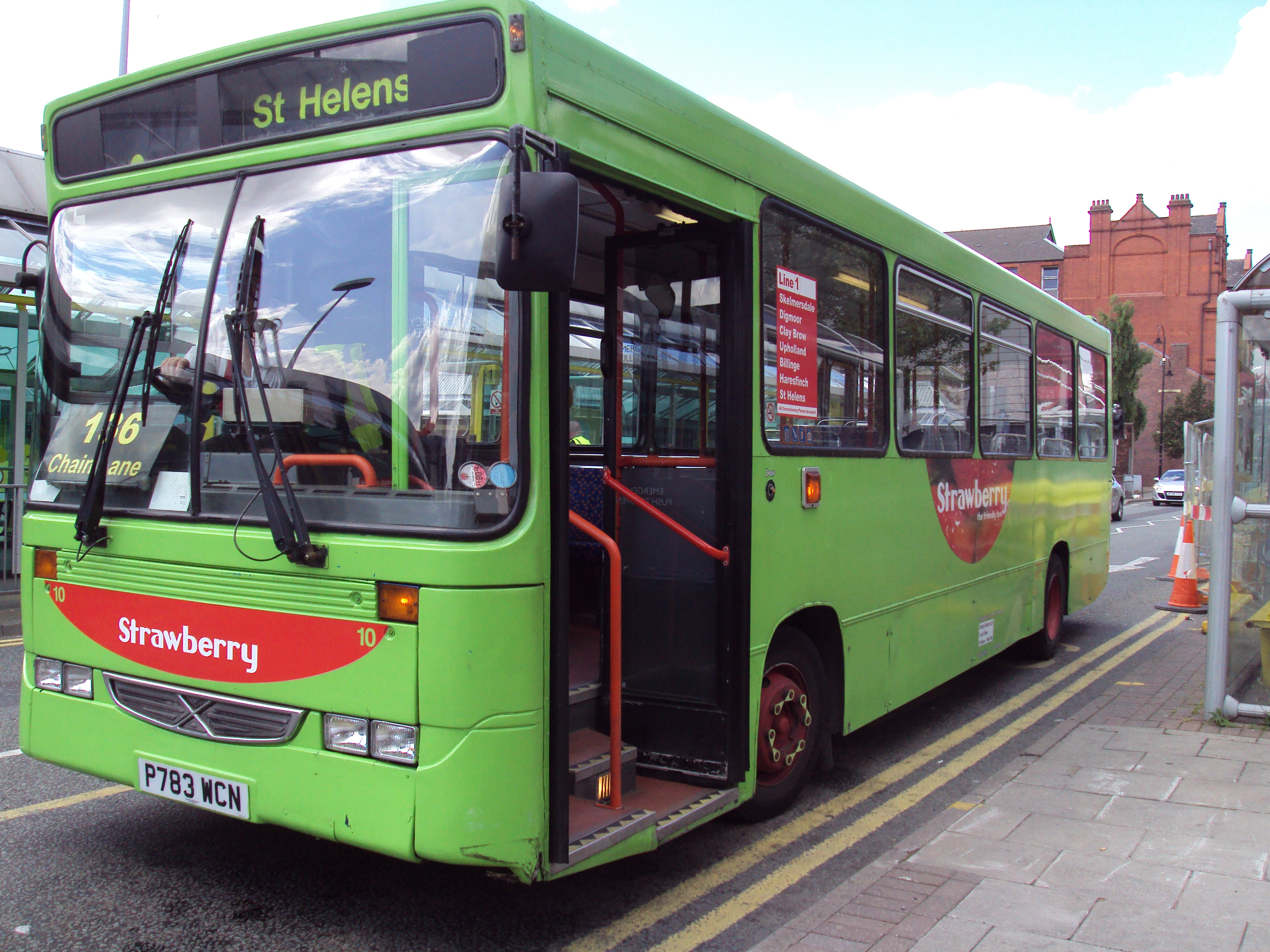 Strawberry bus at St Helens bus station, Merseyside, England.